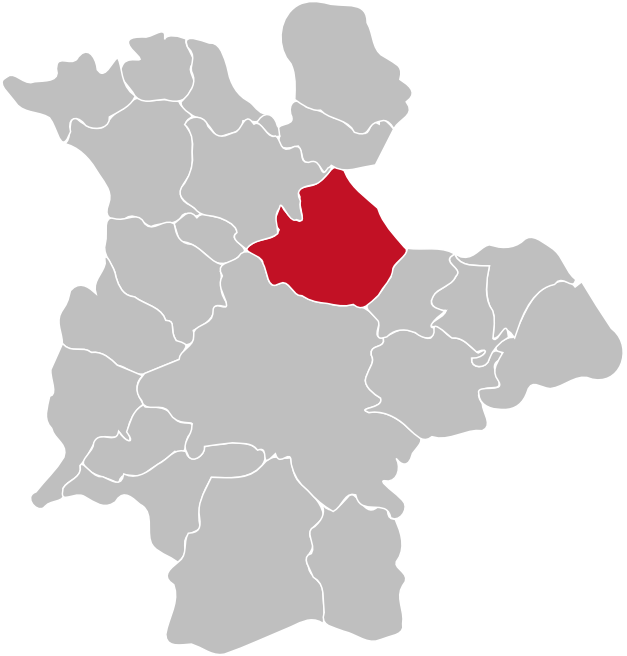 Location of the district Weidenau within Siegen, Germany. Red/Grey colors match the color scheme of Germany maps and information boxes in German Wikipedia. District is highlighted in red.